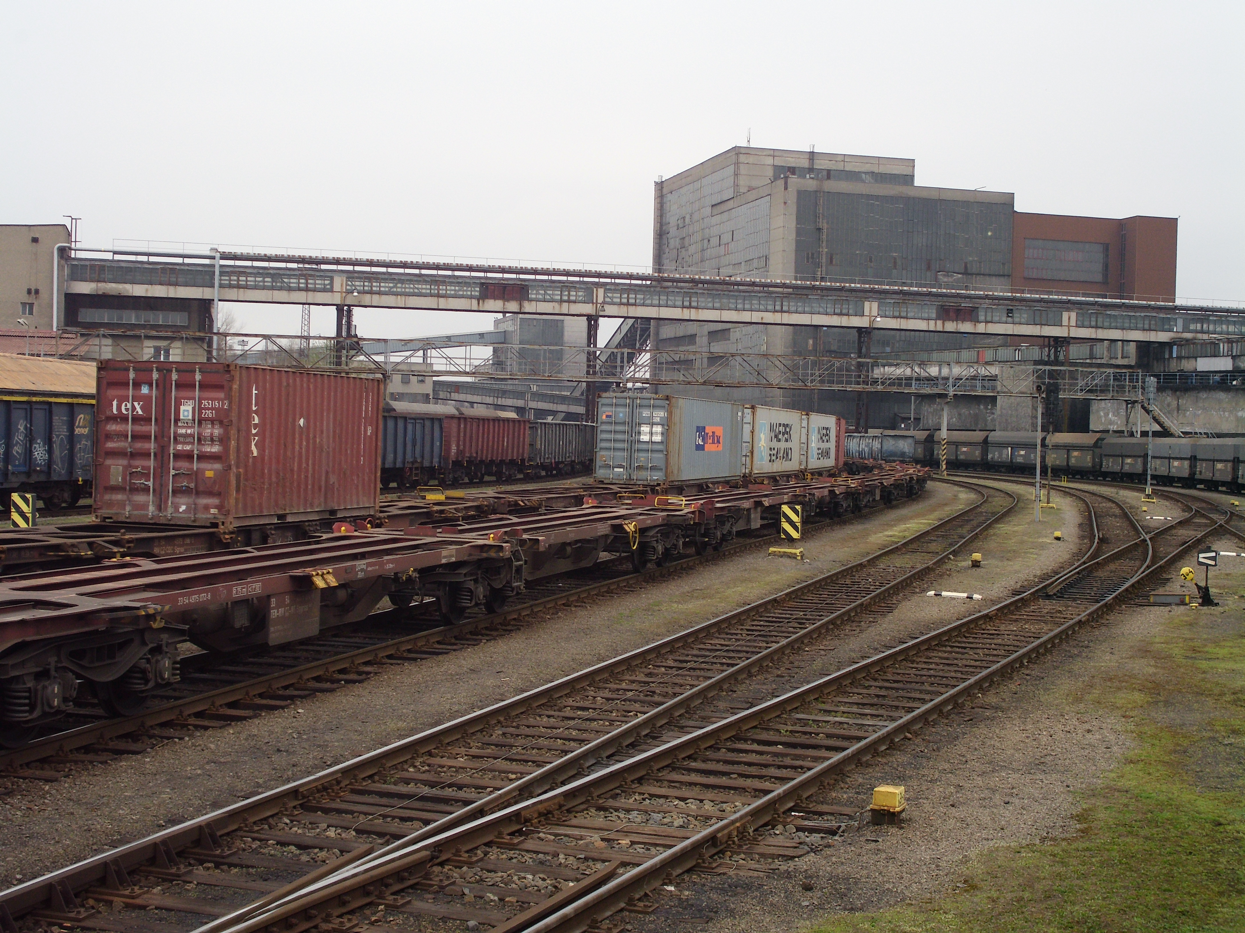 Freight station outside Paskov, Czech Republic. The branch line is operated by AWT.